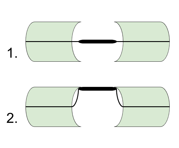 A depiction of a bordered pit-pair with torus and margo, both open (Figure 1) and obstructed (Figure 2).